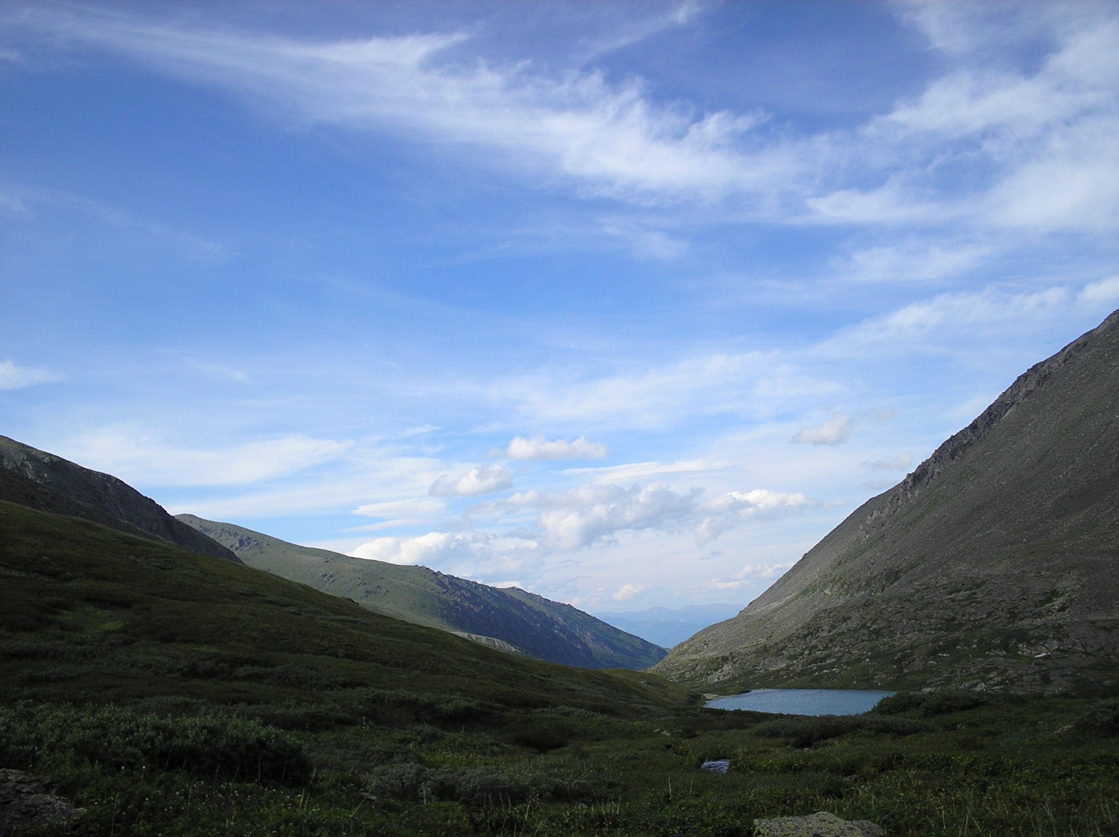 Valley of Lake Akchan (Ust-Koksinsky District, Altai Republic, Russia)